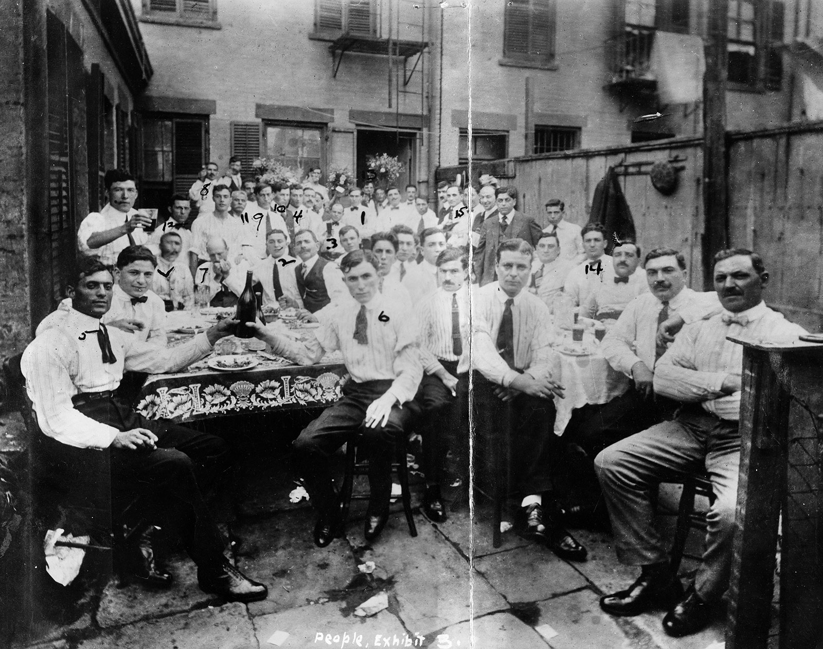 Photograph of the Navy Street gang in Brooklyn, New York used as a prosecution exhibit at trial in 1918 (slightly cropped).